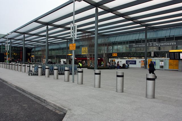 Heathrow Terminal 3 Looking south to the departure hall.